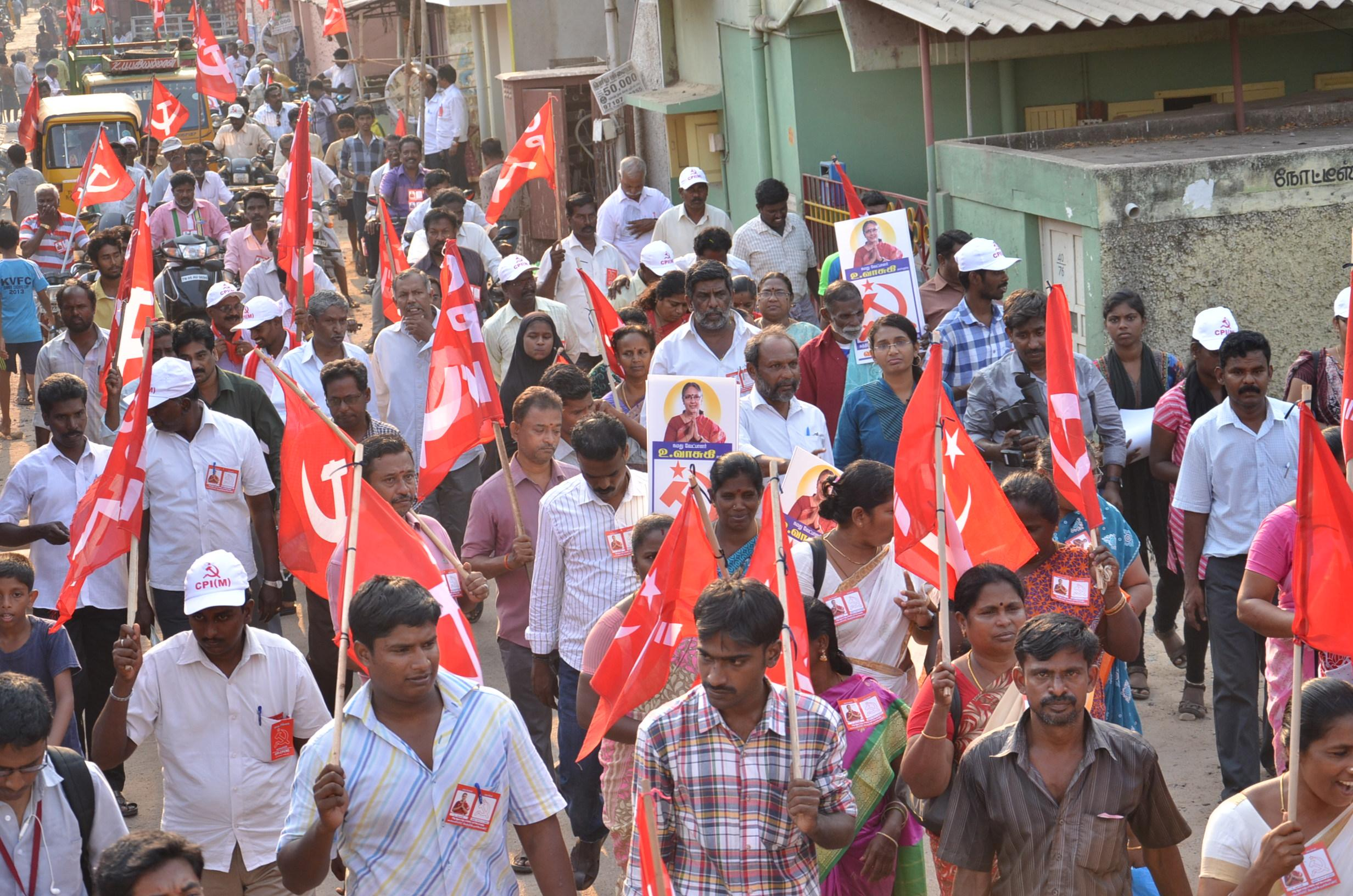 CPI(M) North Chennai Candidate U.Vasuki Election Campaign